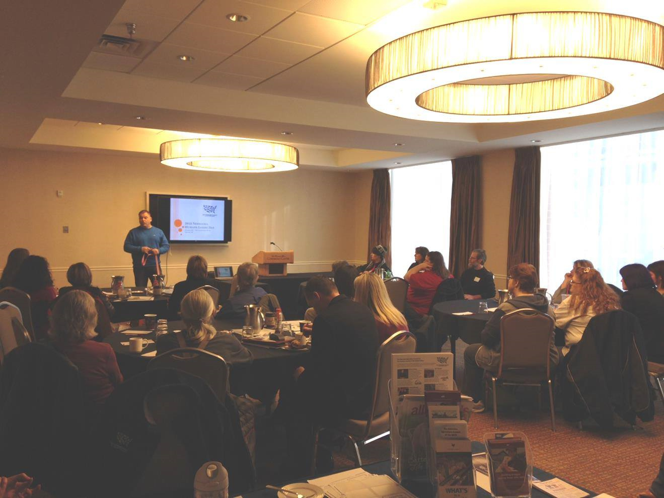 Charlie Cifarelli tells Star's amazing story. Lincoln, NE